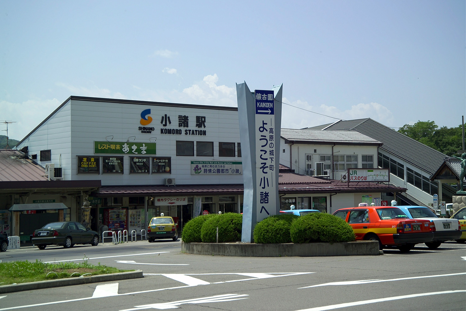 Komoro Station 小諸駅 Aioichō, Komoro, Nagano Prefecture, Japan 長野県小諸市相生町